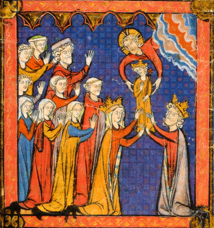 Louis VII and Queen Alix receive Philip Augustus from Christ. Grandes Chroniques de France . Bibliothèque Sainte-Geneviève, Ms. 782, fol. 280.